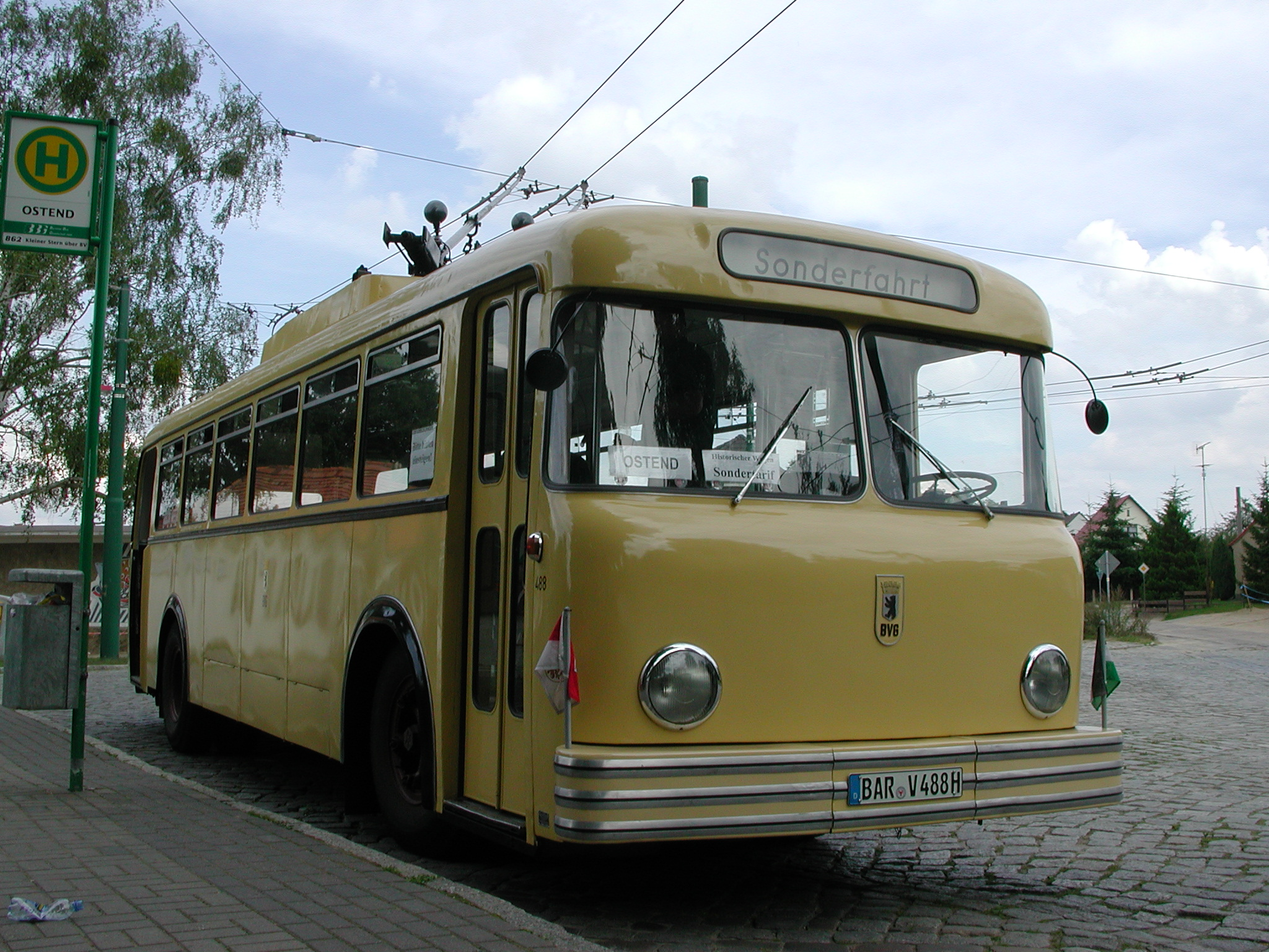 Restored (West-) Berlin trolleybus 488, a 1957-built Henschel HS56 with Gaubschat body and AEG electrical equipment, operating a special trip (Sonderfahrt) on the Eberswalde trolleybus system in 2002.